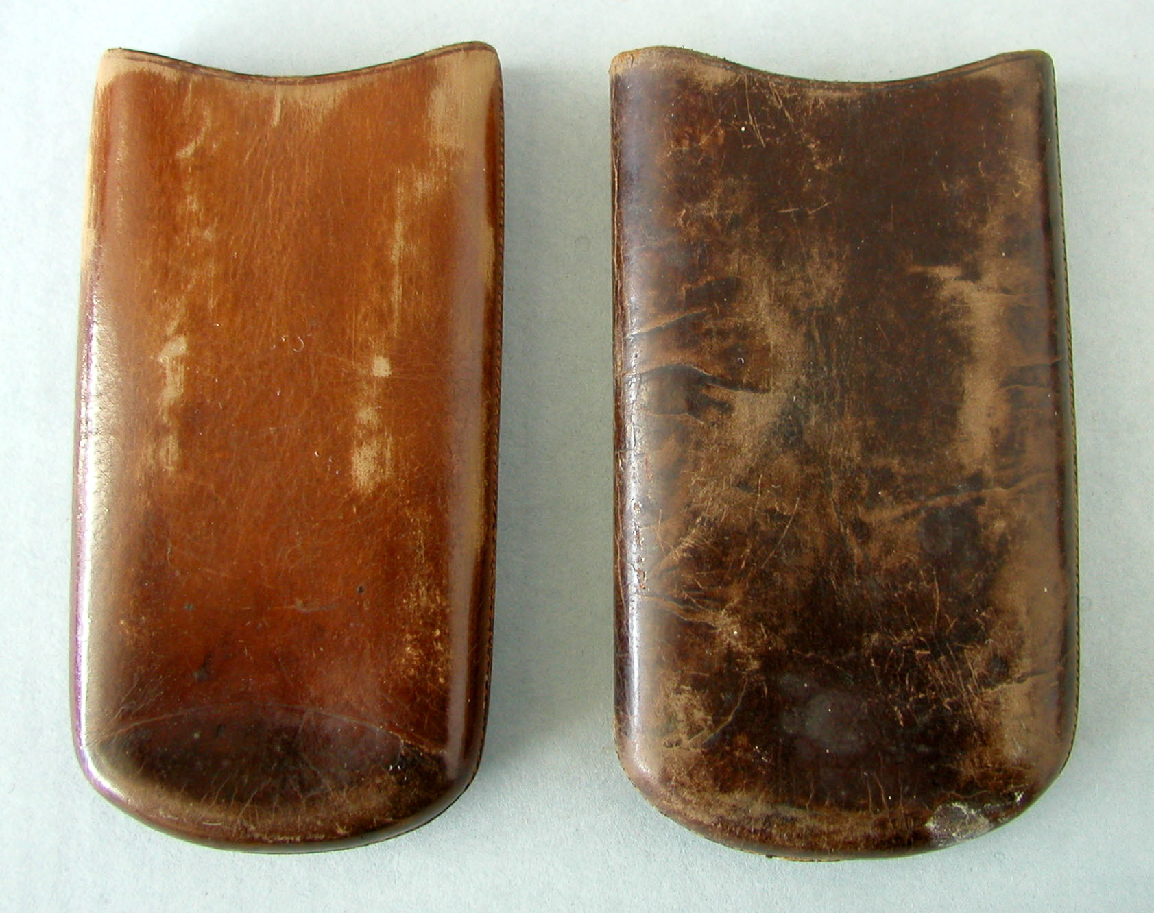 Leather case, probably military, India 19th Century marked on side of lid with trademark in oval - LONDON (royal coat of arms) WARRANTED marked on container- Seville . (Wills) to Rescelle - 1852 (or 151584) marked inside with names of battles (mainly India) 1884-1886 1884- Bombay - Hamptee - Raipore - Broo - 1885- Hoshungalad - Allahabad - Lucknow - Barrally - Kampotu - Raipore 1886- Bombay - Suakin - Kurrachi - Bombay - Se-nderabad - Lonson (. or Coonon.) - Ooctacasmund - Mudras - Burmah Note- see India General Service Medal 1854-1895 for names of battles